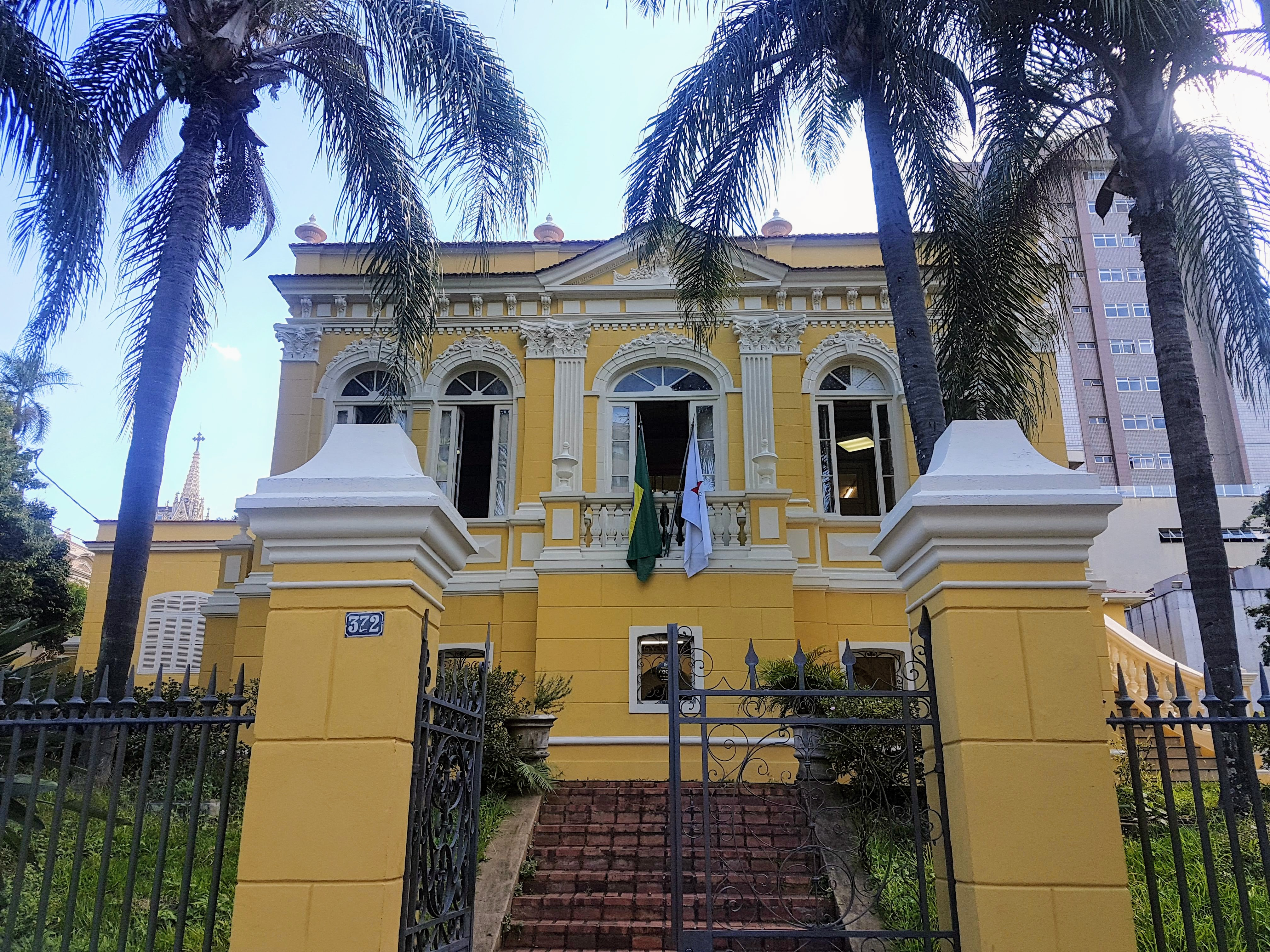 Facade of Arquivo Publico Mineiro building